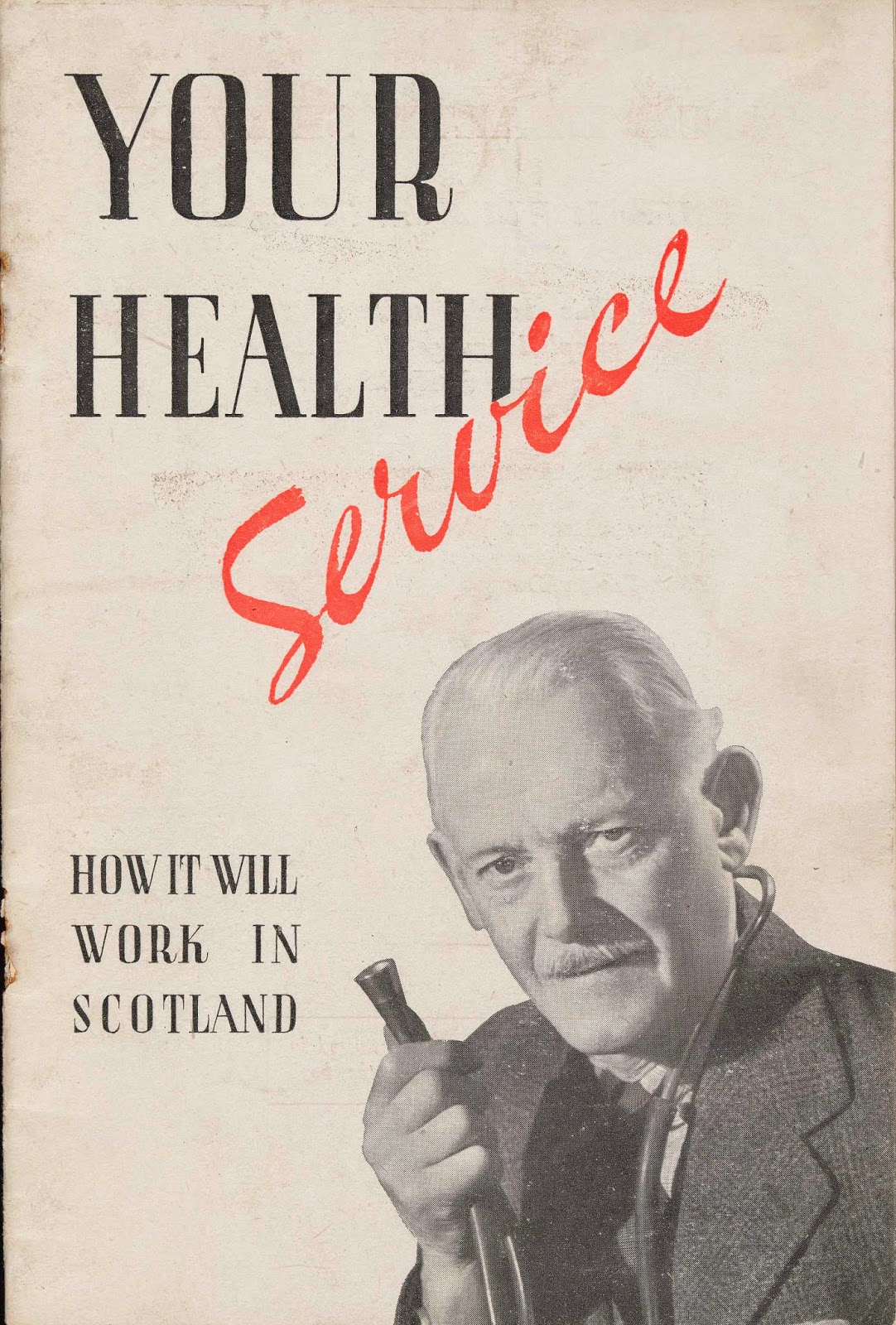 pamphlet cover for "Your Health Service: How it will work in Scotland", 1948